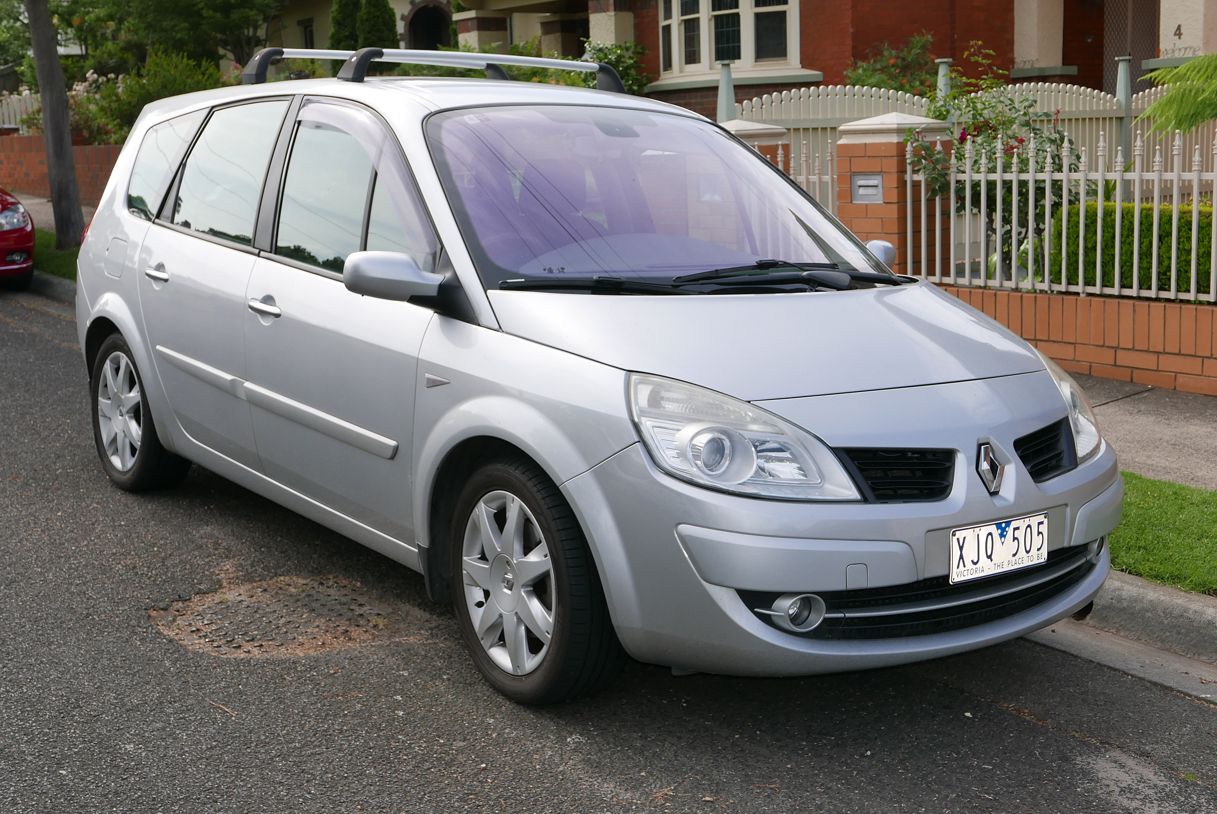 2007 Renault Grand Scénic (J84 Phase 2) Dynamique wagon. Photographed in Ascot Vale, Victoria, Australia. Vehicle registration enquiry results Jurisdiction Victoria Registration XJQ505 Chassis code VF1JM1NEA60642052 Engine code C076821 Compliance date 2007-01 Year of manufacture 2007